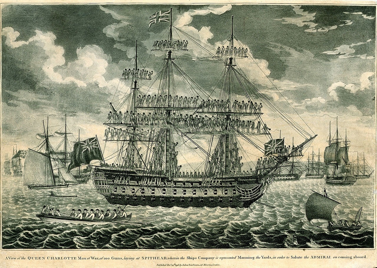 A view of the Queen Charlotte Man of War, of 100 guns, laying at Spithead, where in the ships Company is represented Manning the Yards, in order to salute the Admiral on coming aboard Print